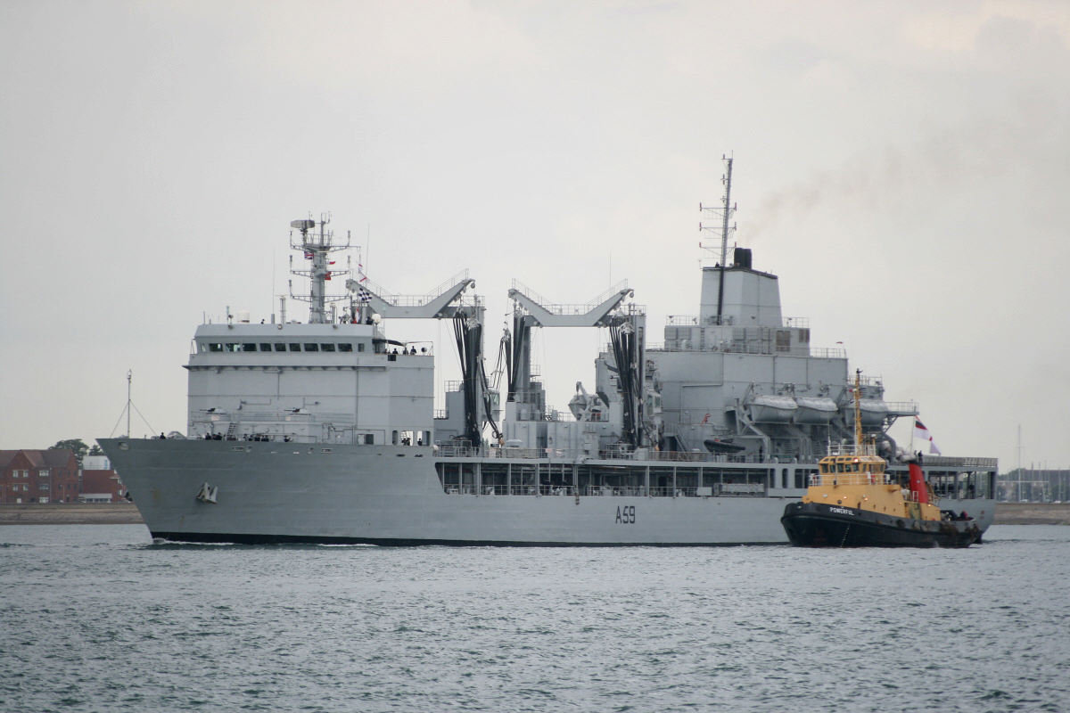 Indian Navy replenishment ship INS Aditya (A59) departing Portsmouth Naval Base, UK, 20th June 2009. Image uploaded by me User:George.Hutchinson from a photograph taken by and supplied by Brian Burnell. Wikipedia editors are reminded that the copyright remains with the photographer, and that the terms of the Creative Commons licence; that allow editors to reuse this image apply to Wikipedia editors also, as they do to other re-users of this image. Breaches of the licence terms are not only unlawful, but are also antisocial, in that breaches discourage photographers from making their images freely available to everyone without payment. Wikipedia re-users are also reminded of the license terms that derivatives of this image should not imply that the adaptation is endorsed or approved by the author or copyright holder. Neither should derivatives be presented as the creation of the author or copyright holder, while clearly stating that the adaptation is a derivative of the original. Attribution online should be in this format Brian Burnell. On the printed page, a simpler form is acceptable - example: "Image: Brian Burnell". Non-Wikipedia users are requested to advise Brian Burnell of its use other than on Wikipedia..